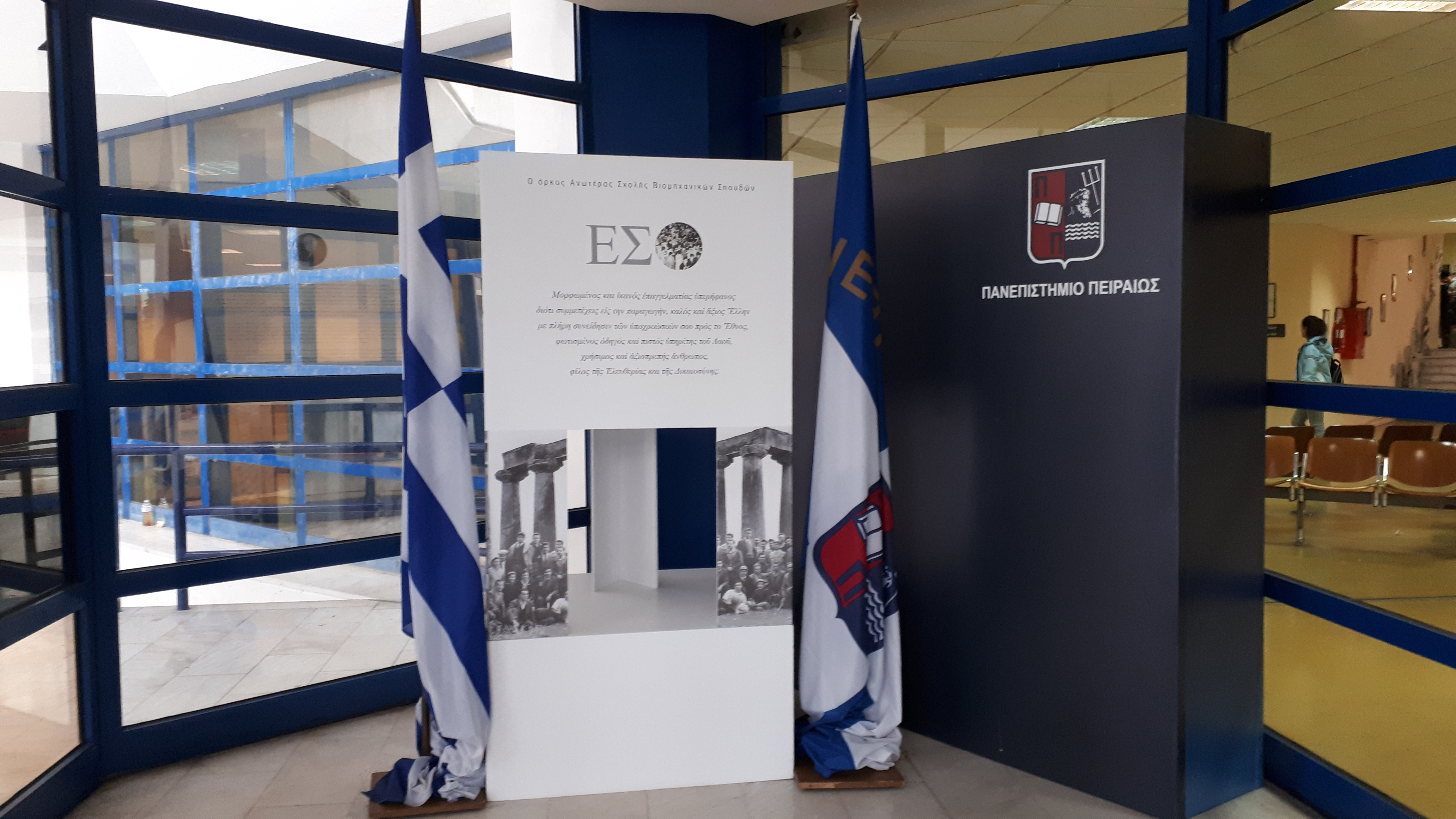 University entrance